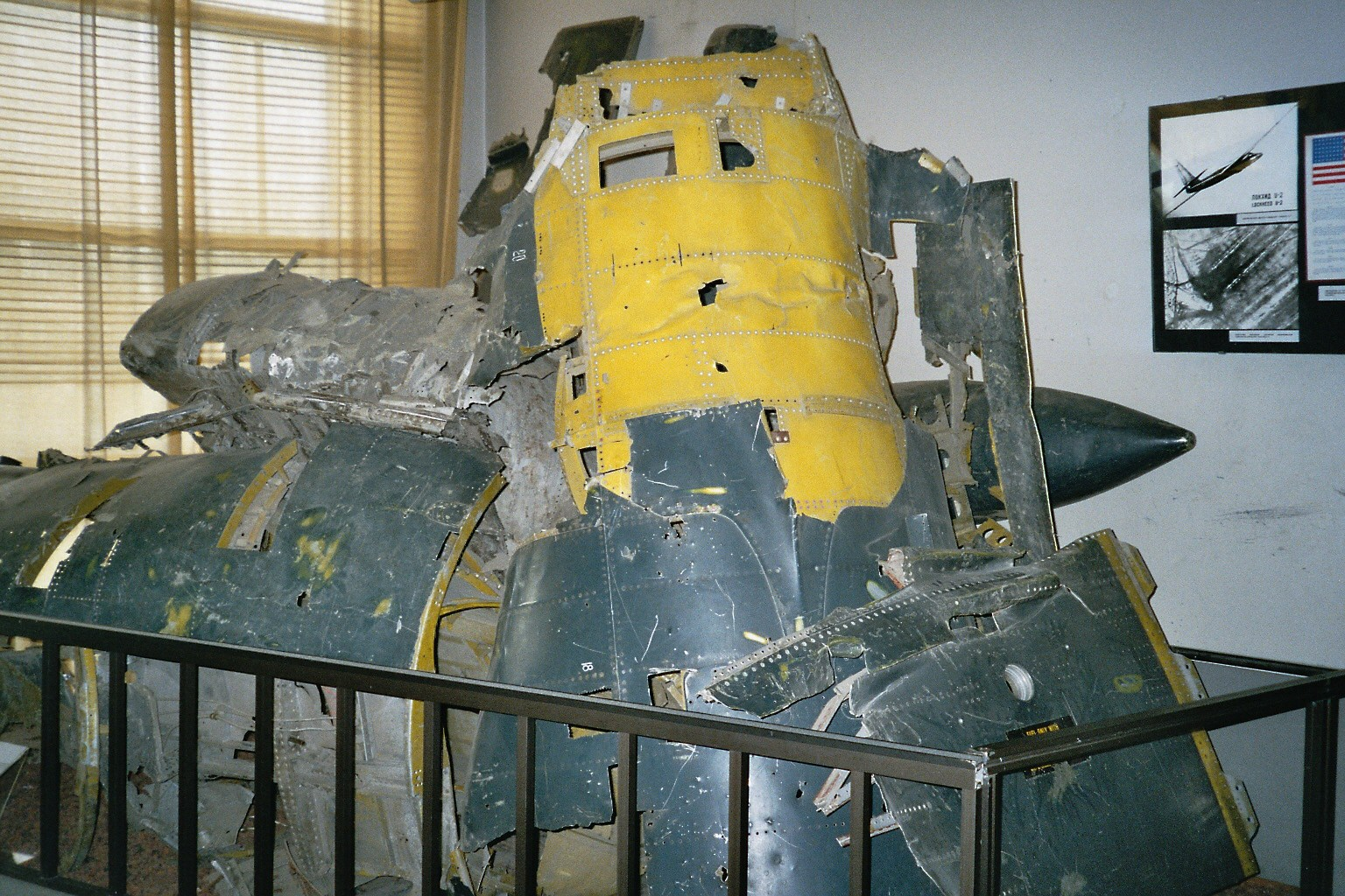 Debris of the shot-down U-2 piloted by Gary Powers, exhibited at the Central Museum of the Armed Forces in Moscow. (translated from the Russian)